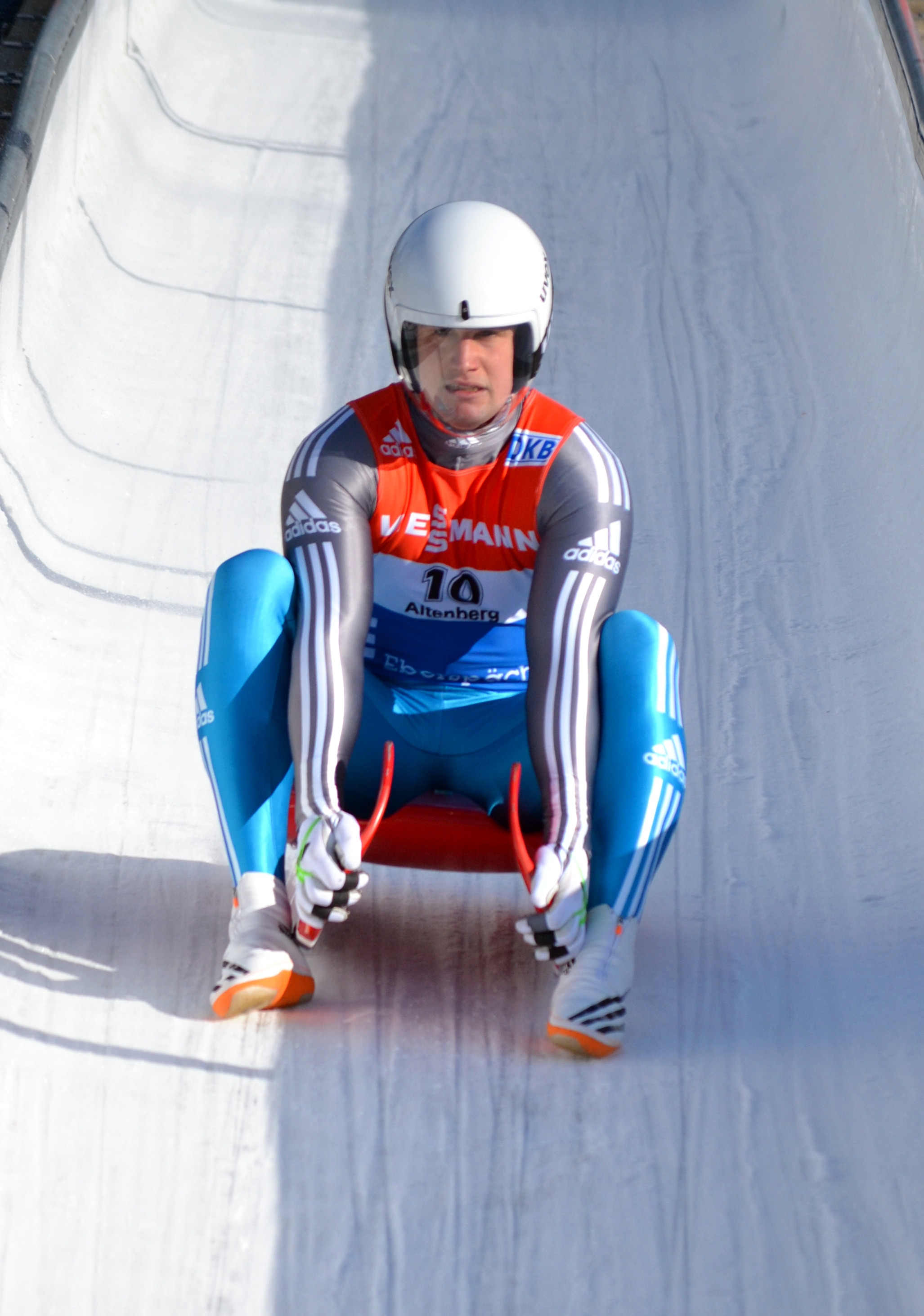 Luge world cup race season 2014/15 in Altenberg/Germany, 19th to 22nd Februar 2015. Day 3: Mens race.